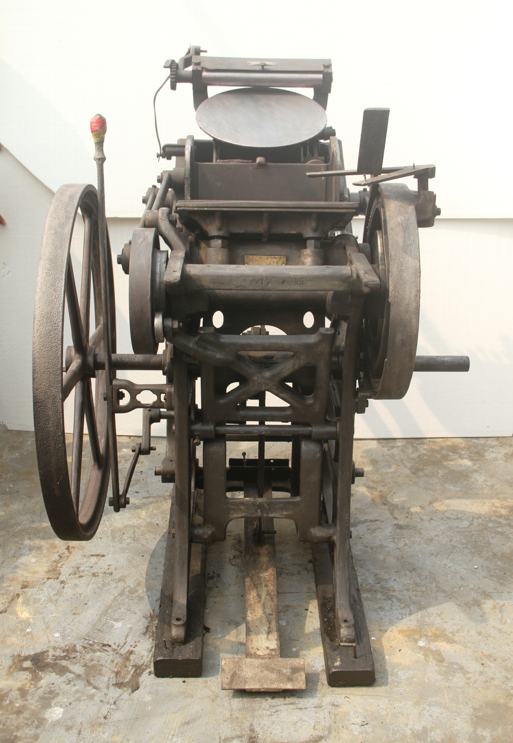 Photo of a paddle printing press, used till late late twentieth century for printing.